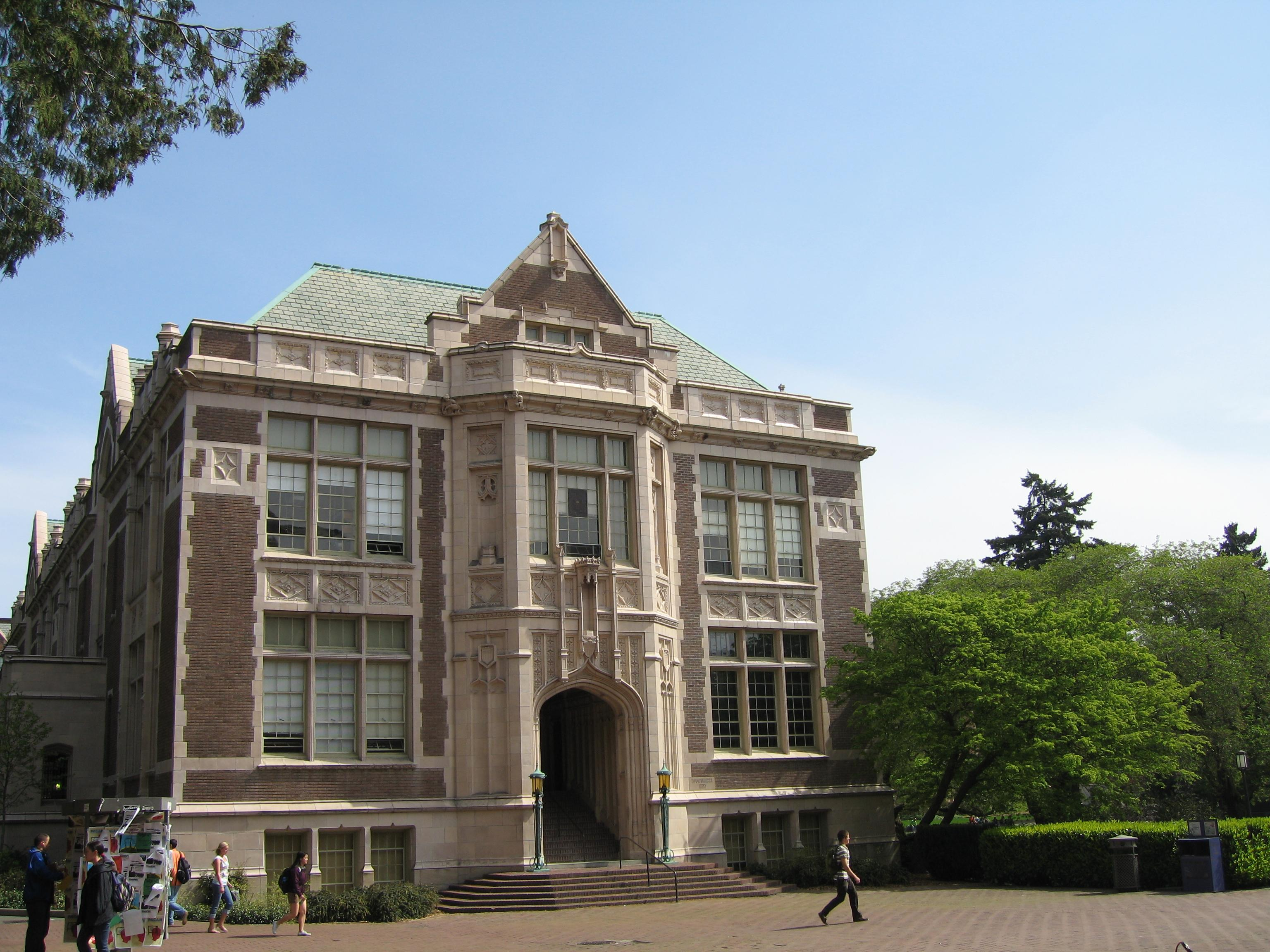 University of Washington: Raitt Hall. Department of Scandinavian Studies.